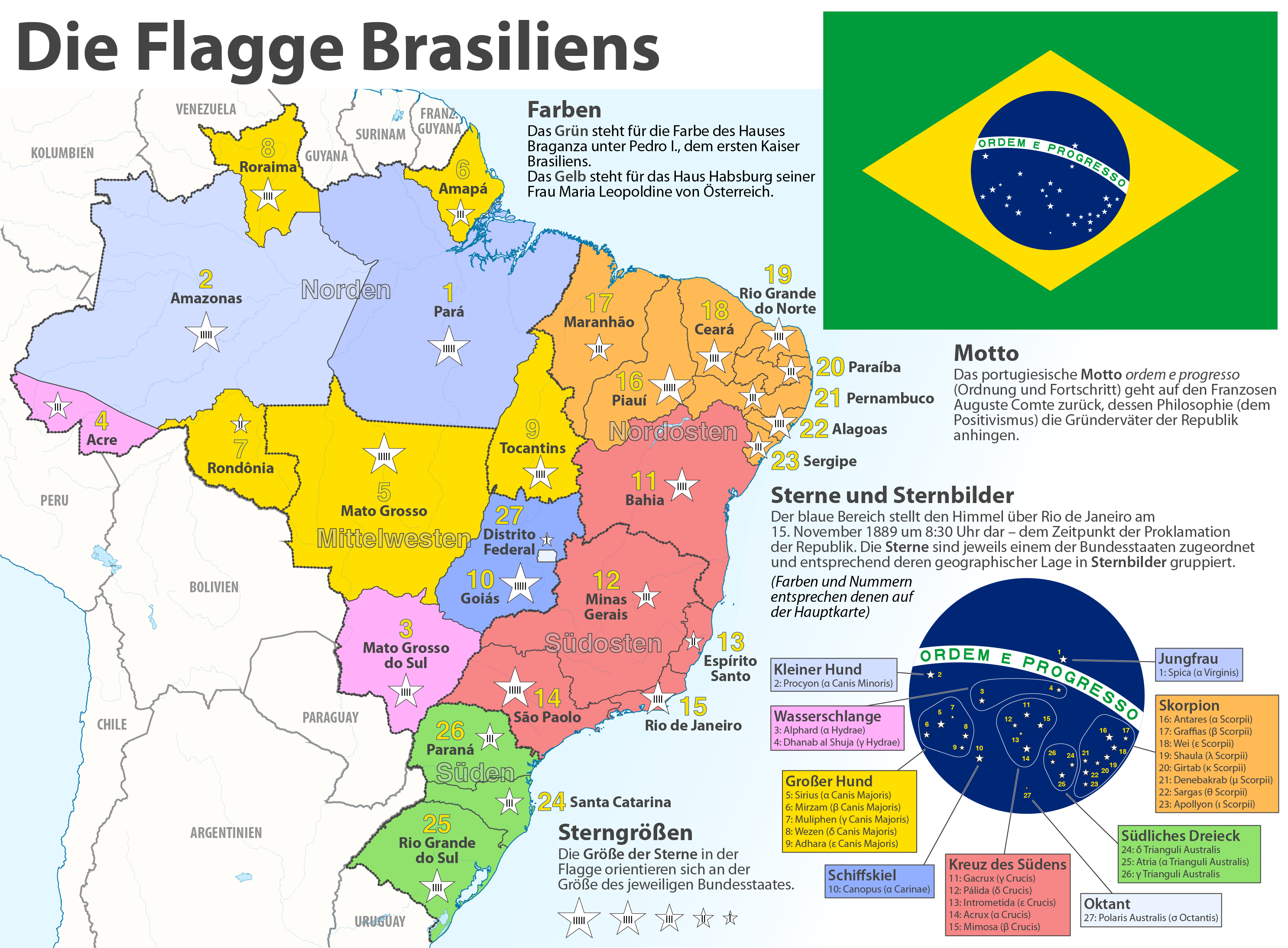 Elements of the flag of Brazil